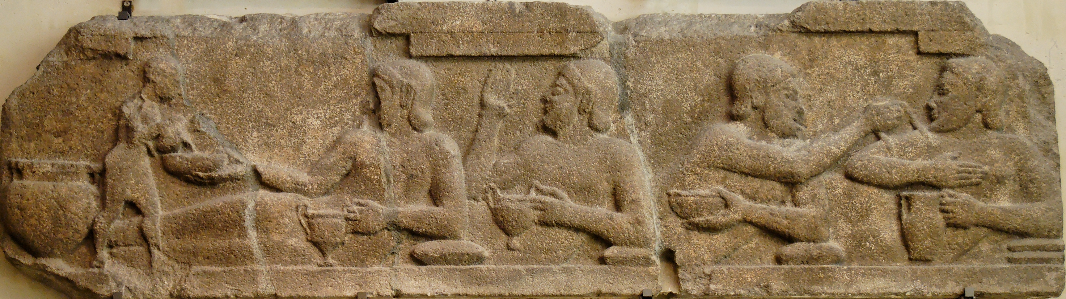 Banquet scene, sculpted architrave from the temple of Athena in Assos. Trachyte, third quarter of the 6th century BC.